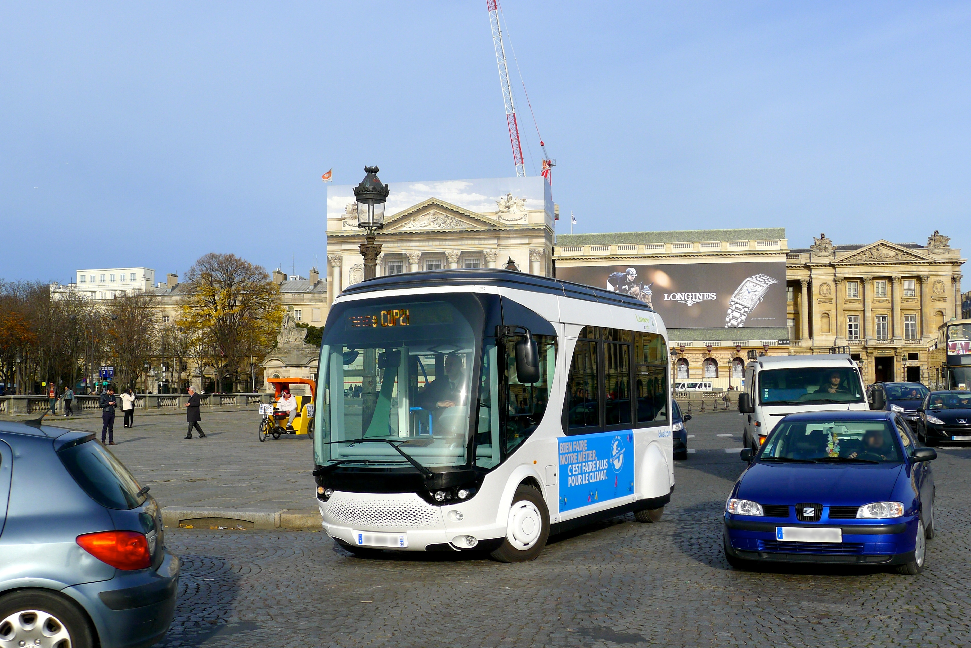 Bolloré Bus "BlueTram" on the Champs-Elysées, during the COP21 in Paris. Picture at the "Place de la Concorde"